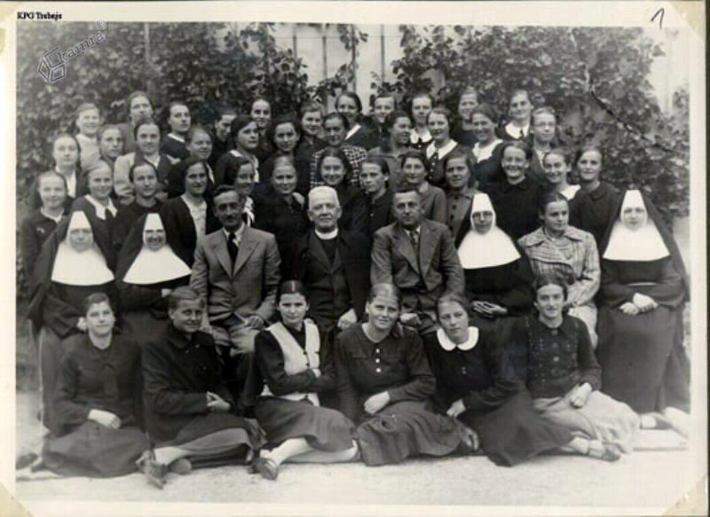 Teachers and pupils-girls in school-year 1938-39 on Mala Loka (Grosuplje, Slovenia)